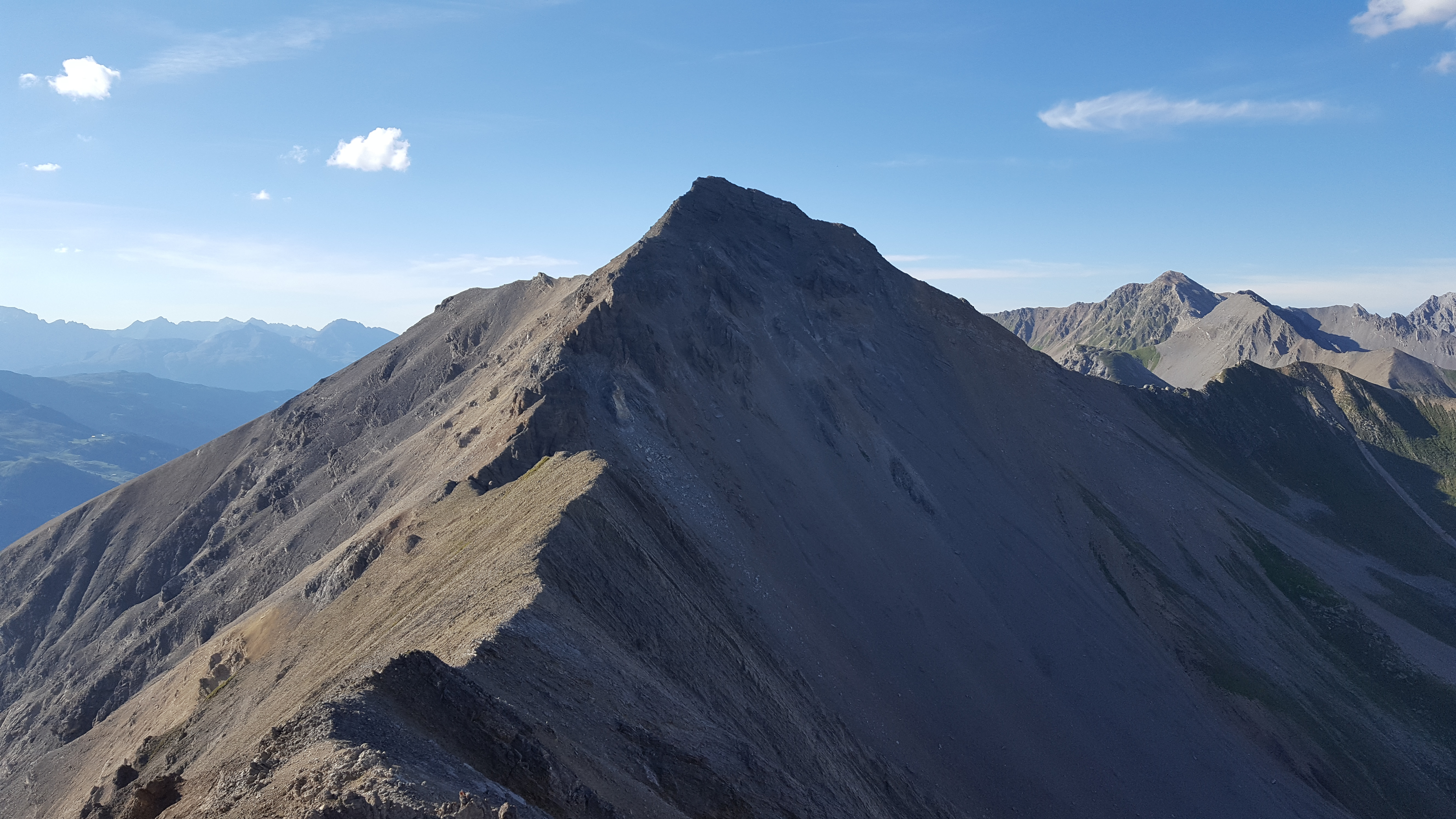 Lenzer Horn, picture taken from Piz Linard (Lantsch/Lenz - Surses, Grison, Switzerland)